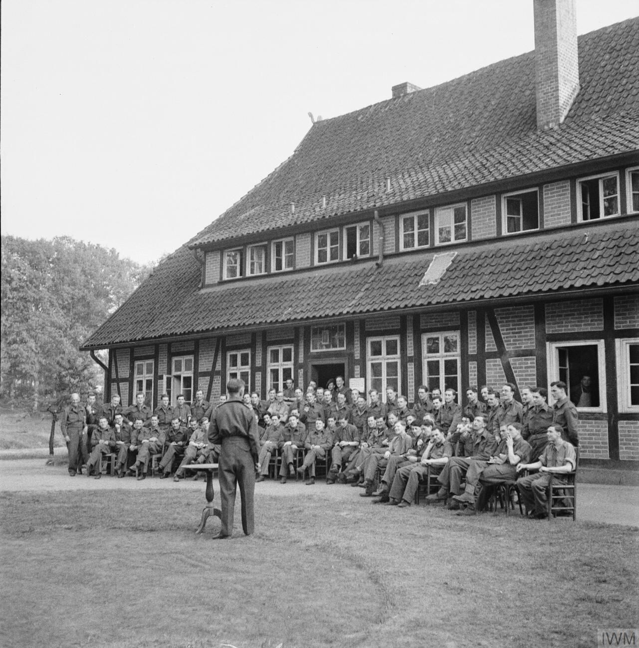 The Liberation of Bergen-belsen Concentration Camp, May 1945 A group of British medical students employed at Belsen discuss some of the medical problems and clinical test results experienced during the day with E M De Greff, British Red Cross Relief Officer and second in command of the medical students during a daily evening conference. Ninety seven British medical students from London teaching hospitals volunteered for relief work in Belsen.